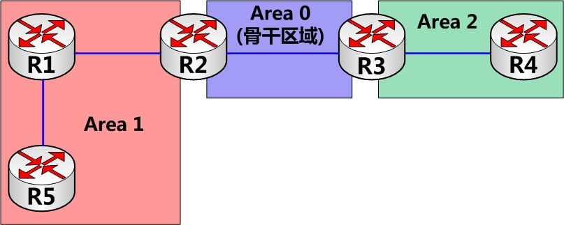 this figure depict a network which is divided into multiple OSPF areas.Notice that all the non-backbone areas are connect to the backbone area(area 0) directly.